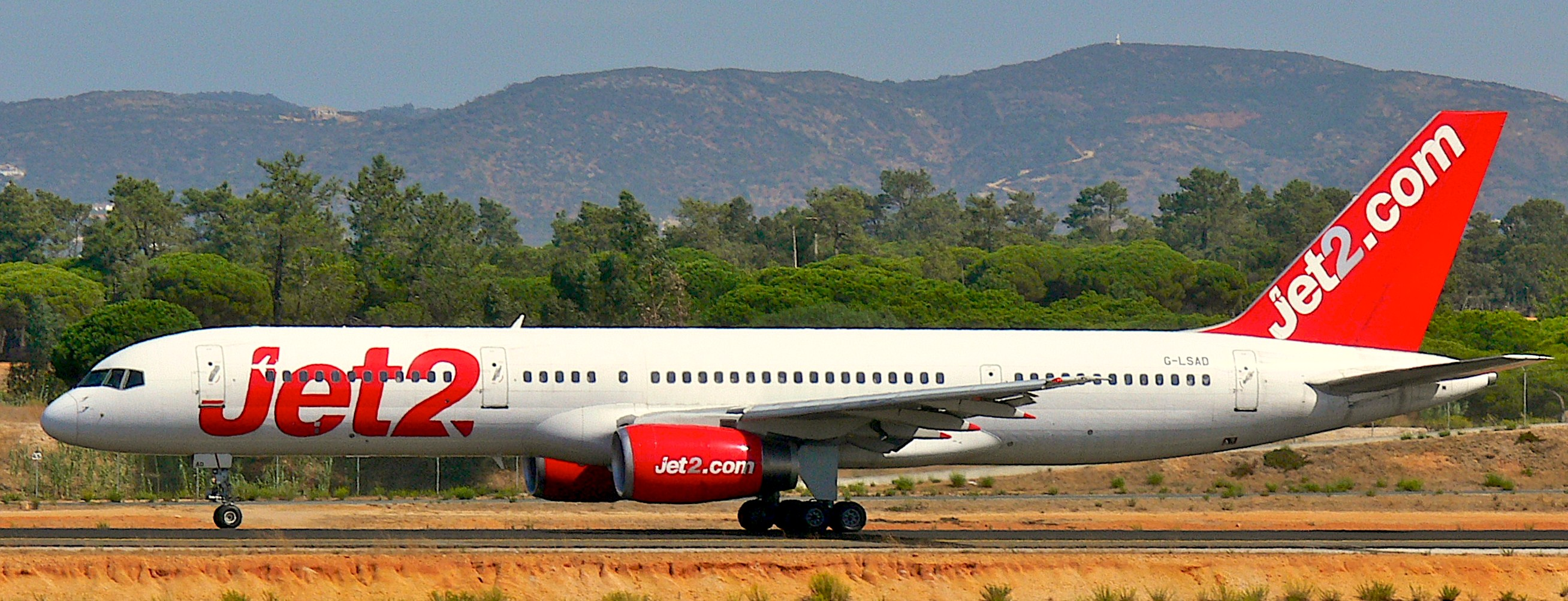 Boeing 757-200 G-LSAD at Faro Airport